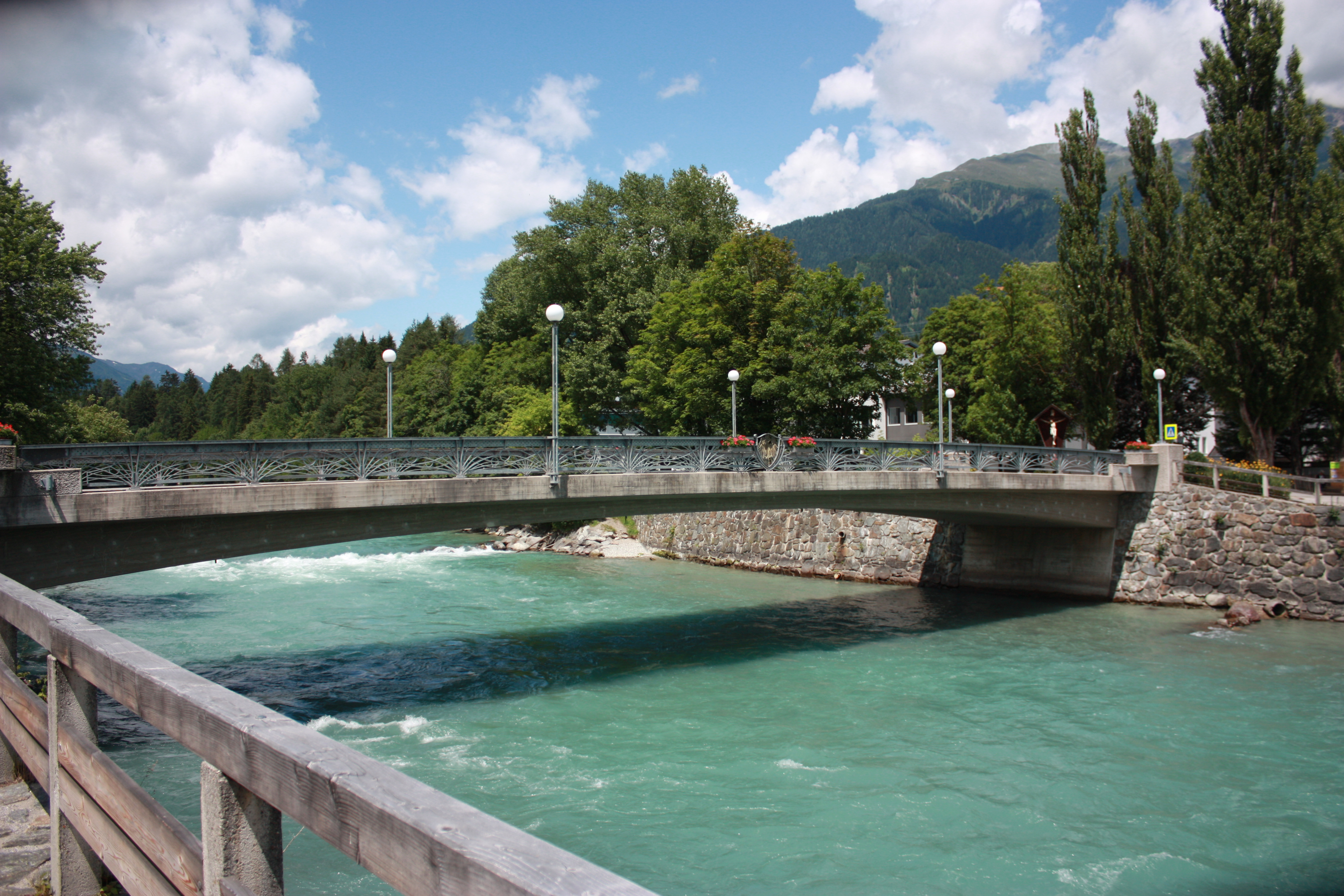 Pfarrbrücke Locality:Pfarrbrücke Community:Lienz